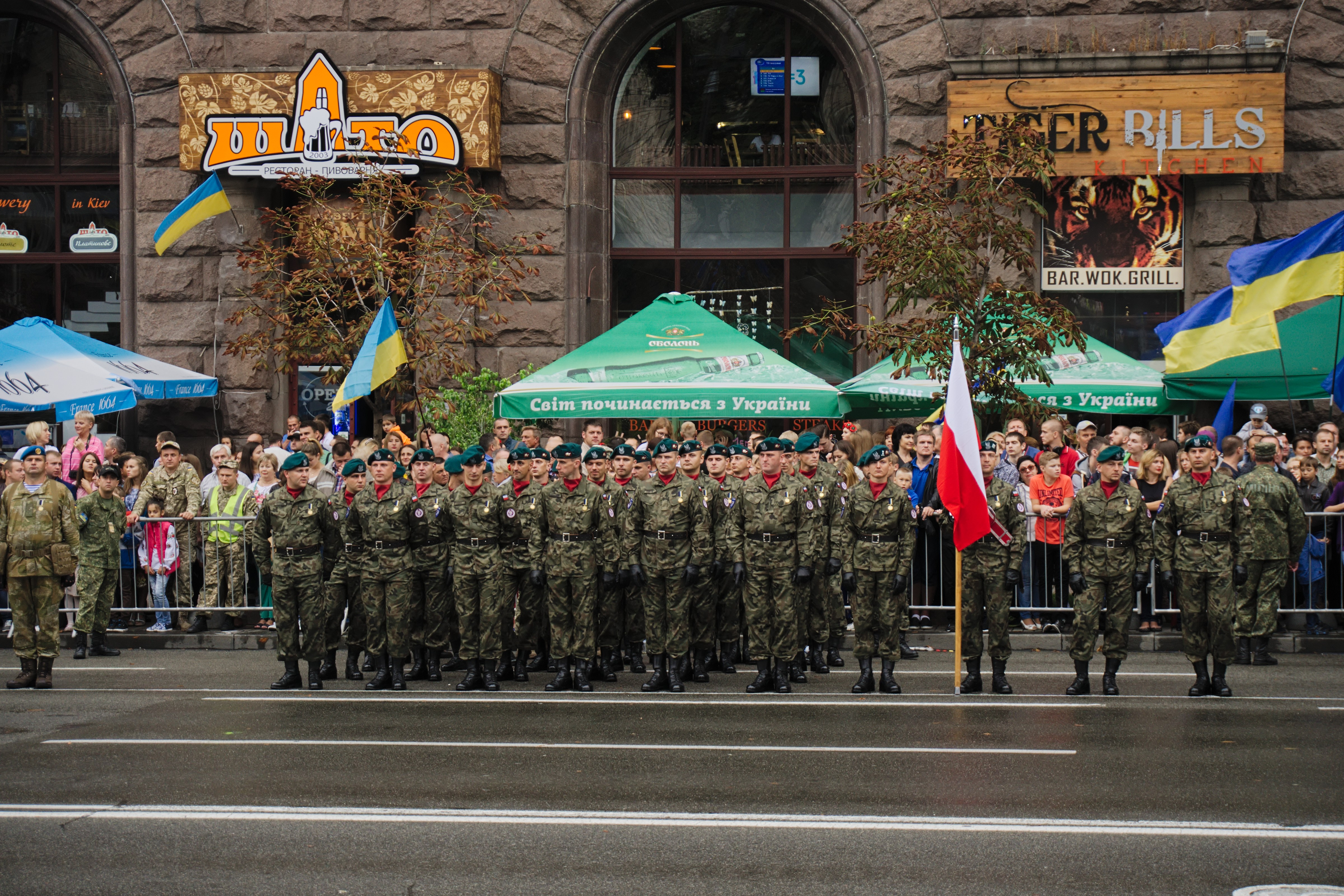 Squad of polish army in joint brigade of Poland, Lithuania and Ukraine.